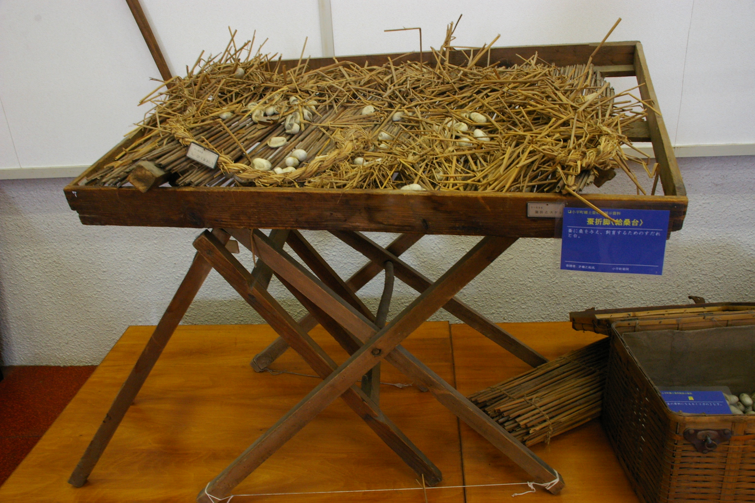 Silkworm bed displayed at the Obira Town Local History Museum, Hokkaido, Japan